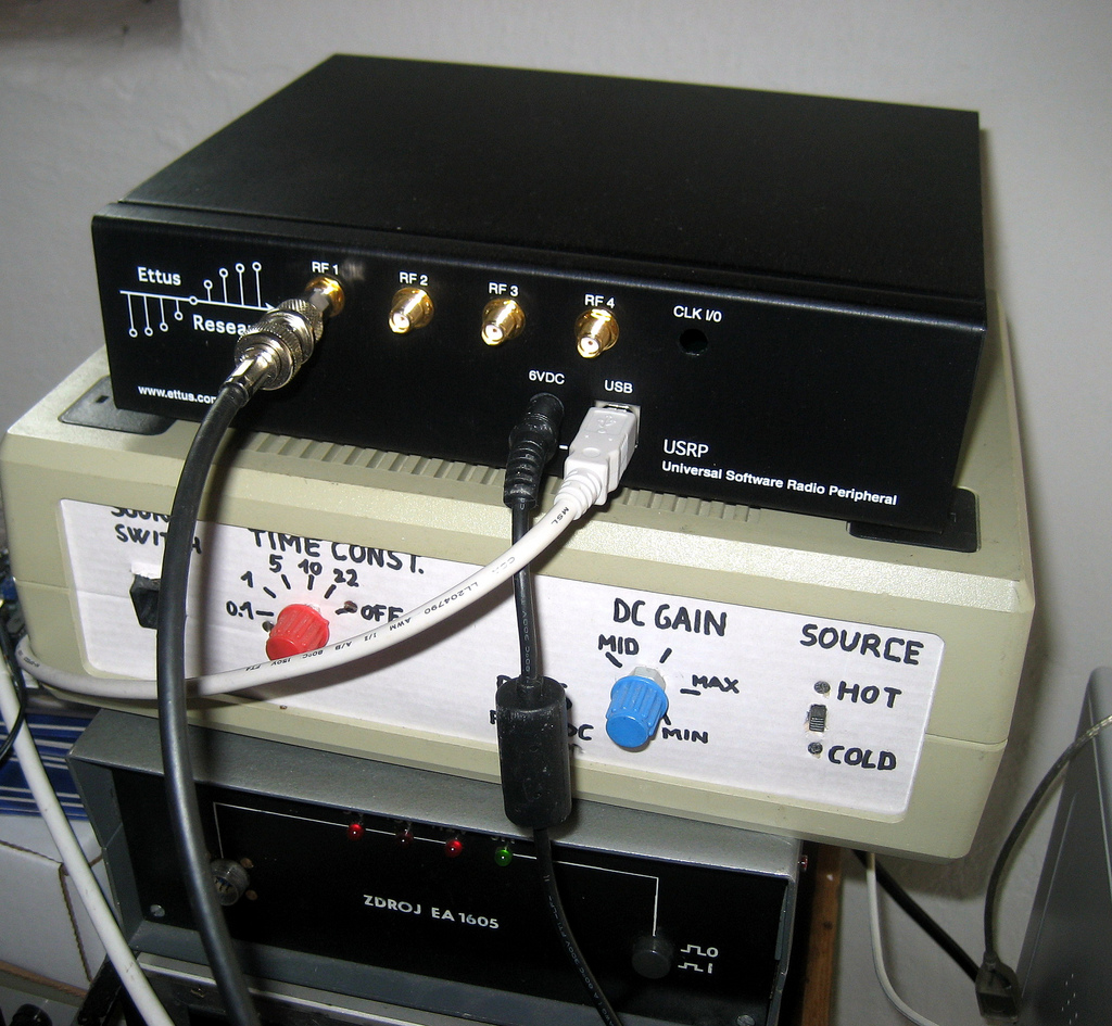 Universal Software Radio Peripheral (USRP)